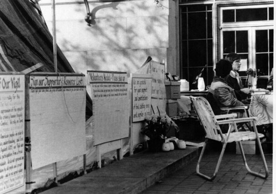 A.I.D.S. Vigil in United Nations Plaza in front of the doors of 50 United Nations Plaza